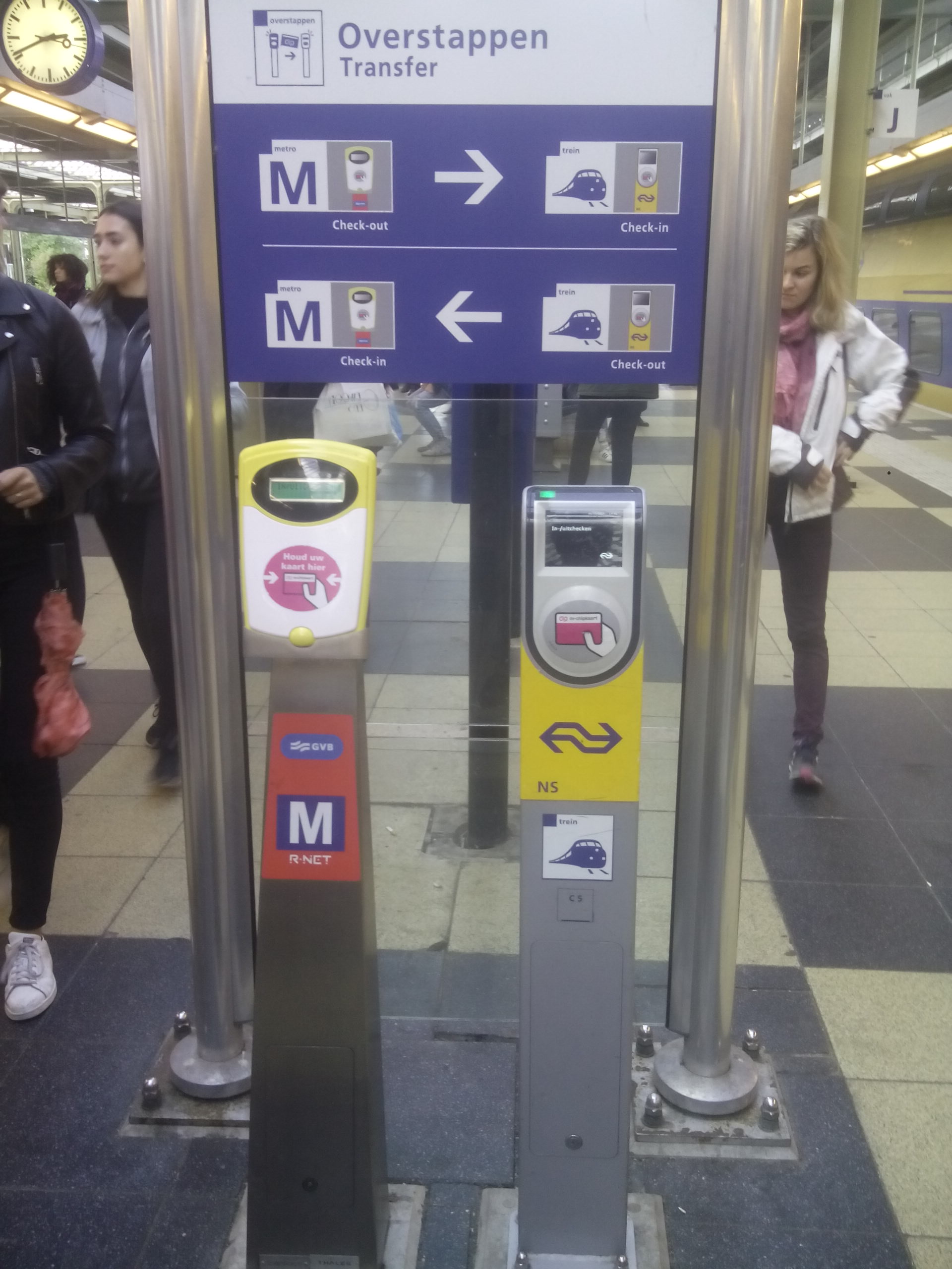 Transfer point for the OV-Chipcard